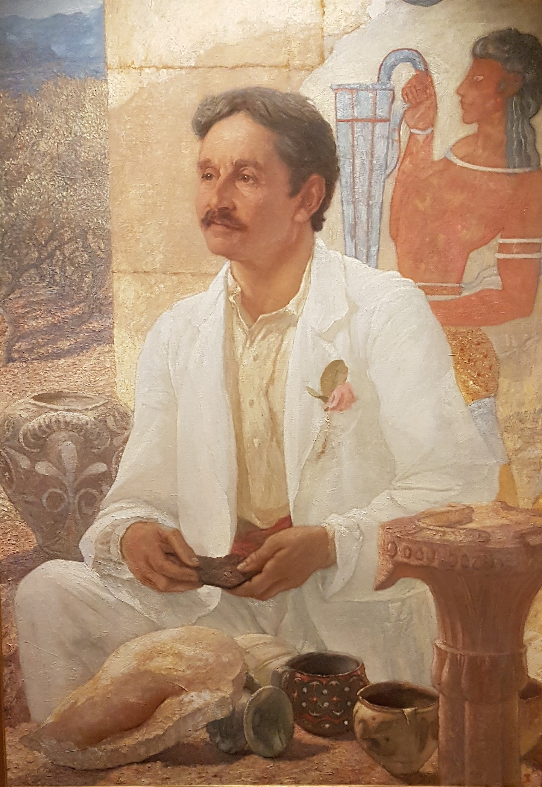 Arthur Evans portrait, 1907, by William Richmond. Initially at the Royal Academy in London, now displayed at the Ashmolean Museum, Oxford.